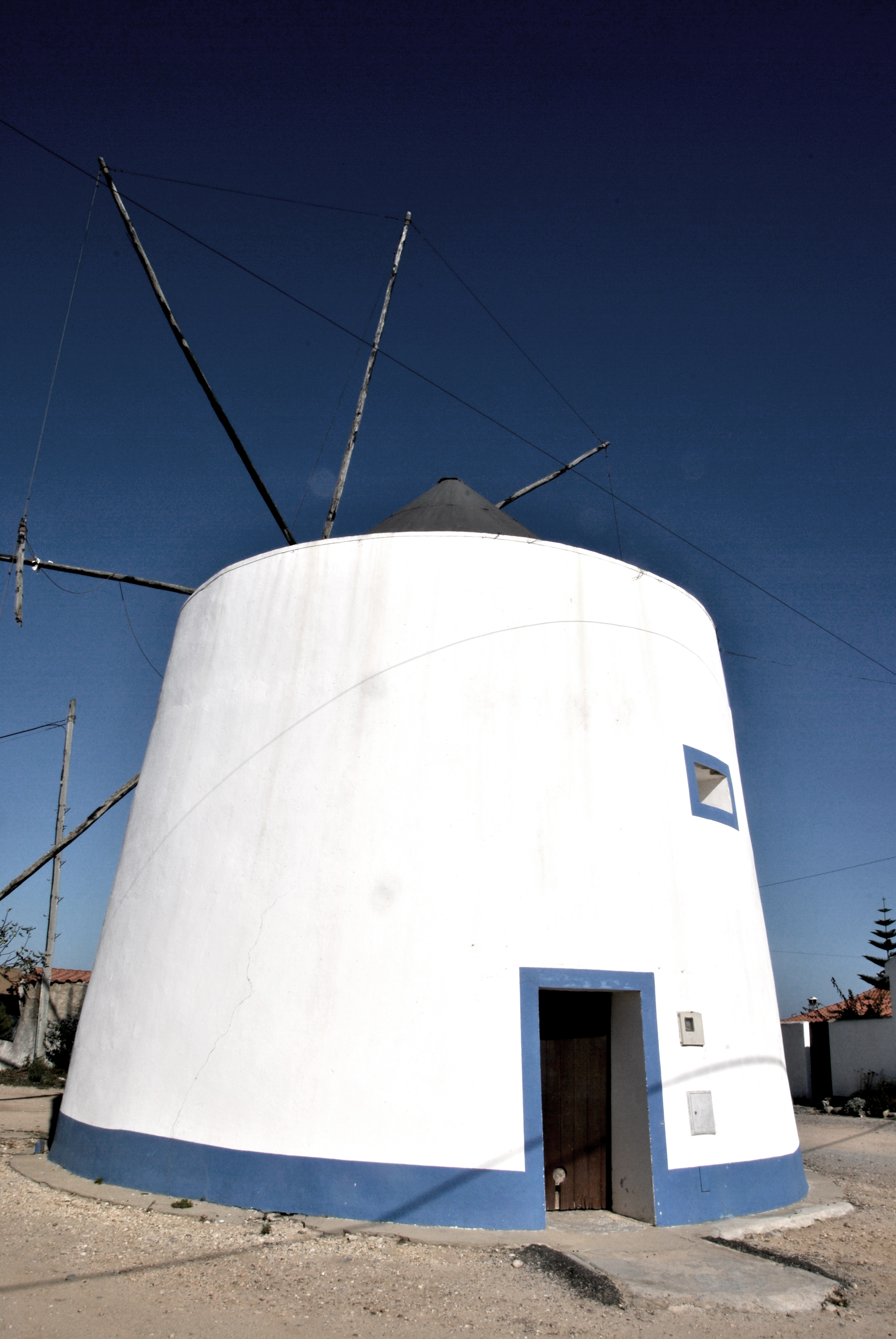 Windmill at Longueira (Alentejo, Portugal)